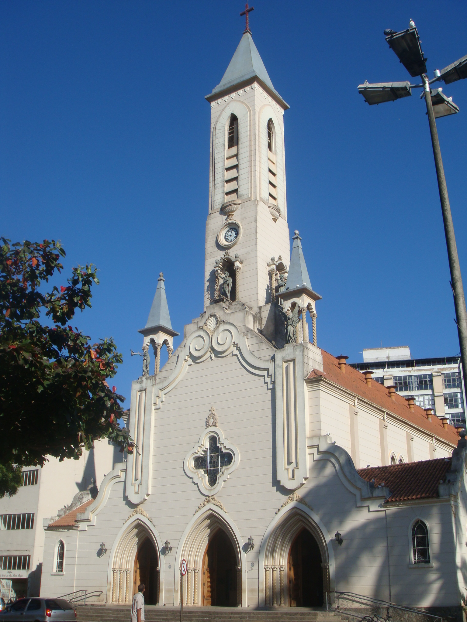 church St. Rita de Cássia